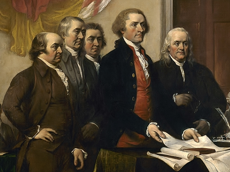 Committee of Five, Declaration of Independence, July 1776, detail of John Trumbull's painting (1819)